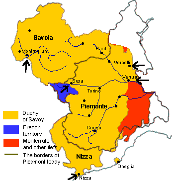 The invasion of the Duchy of Savoy during the War of the Spanish Succession (1701–1714).